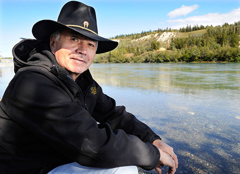 Carl Sidney - Chief of the Teslin Tlingit Council, appointed July, 2012 to serve a term of 4 years